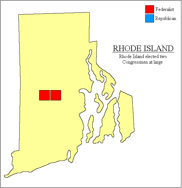 Congressional district map of Rhode Island for the 5th Congress, 1796